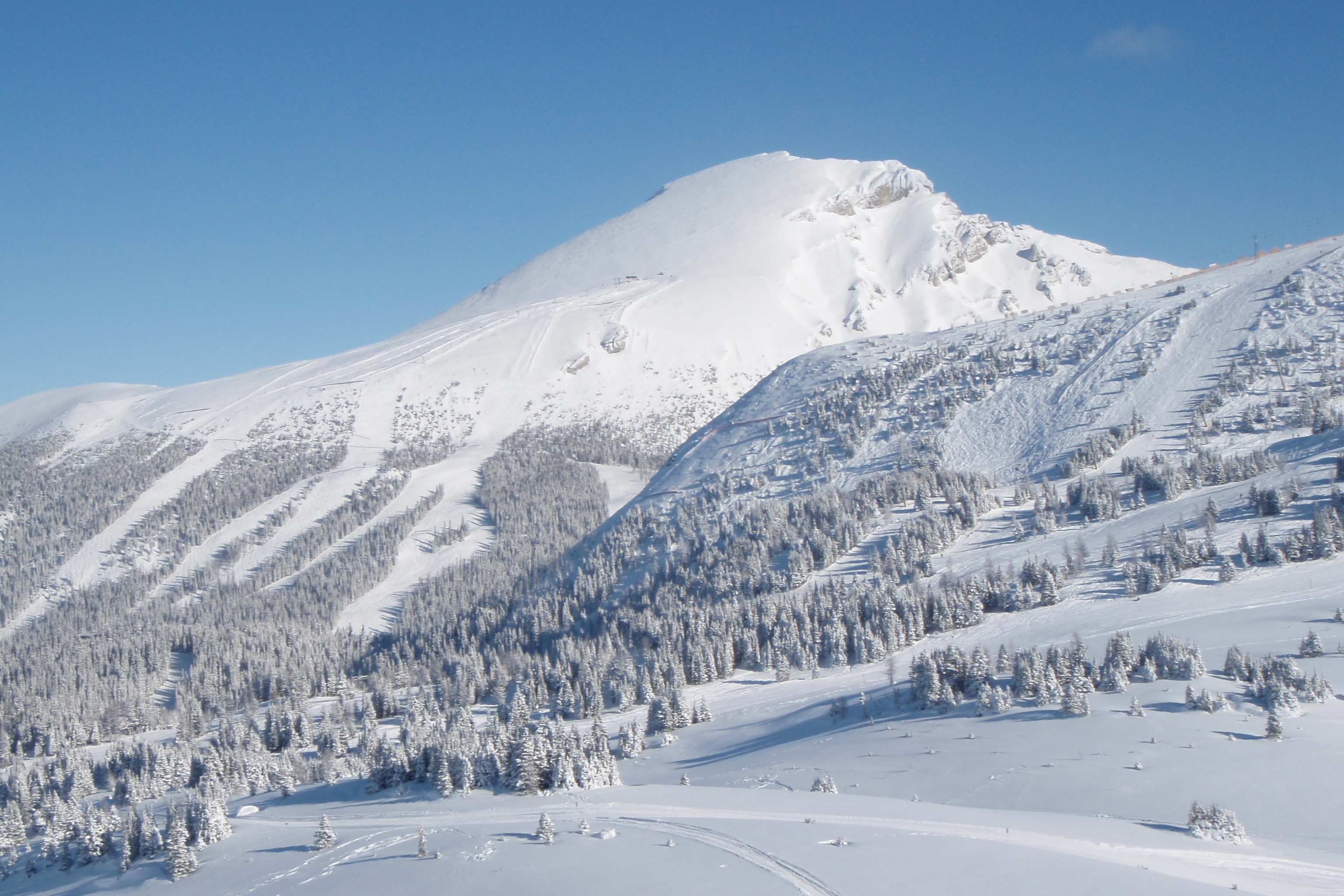 Goat's Eye Mountain. Sunshine Village ski resort, Banff, Alberta, Canada.